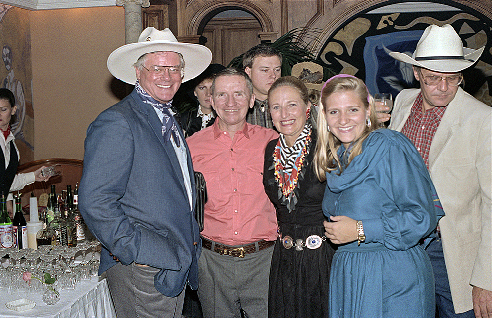 Title: (L-R) Larry Hagman, Ross Perot, Margot Perot and Suzanne Perot at the Rosewood Crescent Club Creator: J. Allen Hansley Date: 1988 Part Of: Place: Dallas, Texas Physical Description: 1 negative: safety film, color; 35 mm File: ag2006_0009_02_05_45_1111_10_opt.jpg Rights: Please cite DeGolyer Library, Southern Methodist University when using this file. A high-resolution version of this file may be obtained for a fee. For details see the web page. For other information, . For more information, View Texas: Photographs, Manuscripts, and Imprints